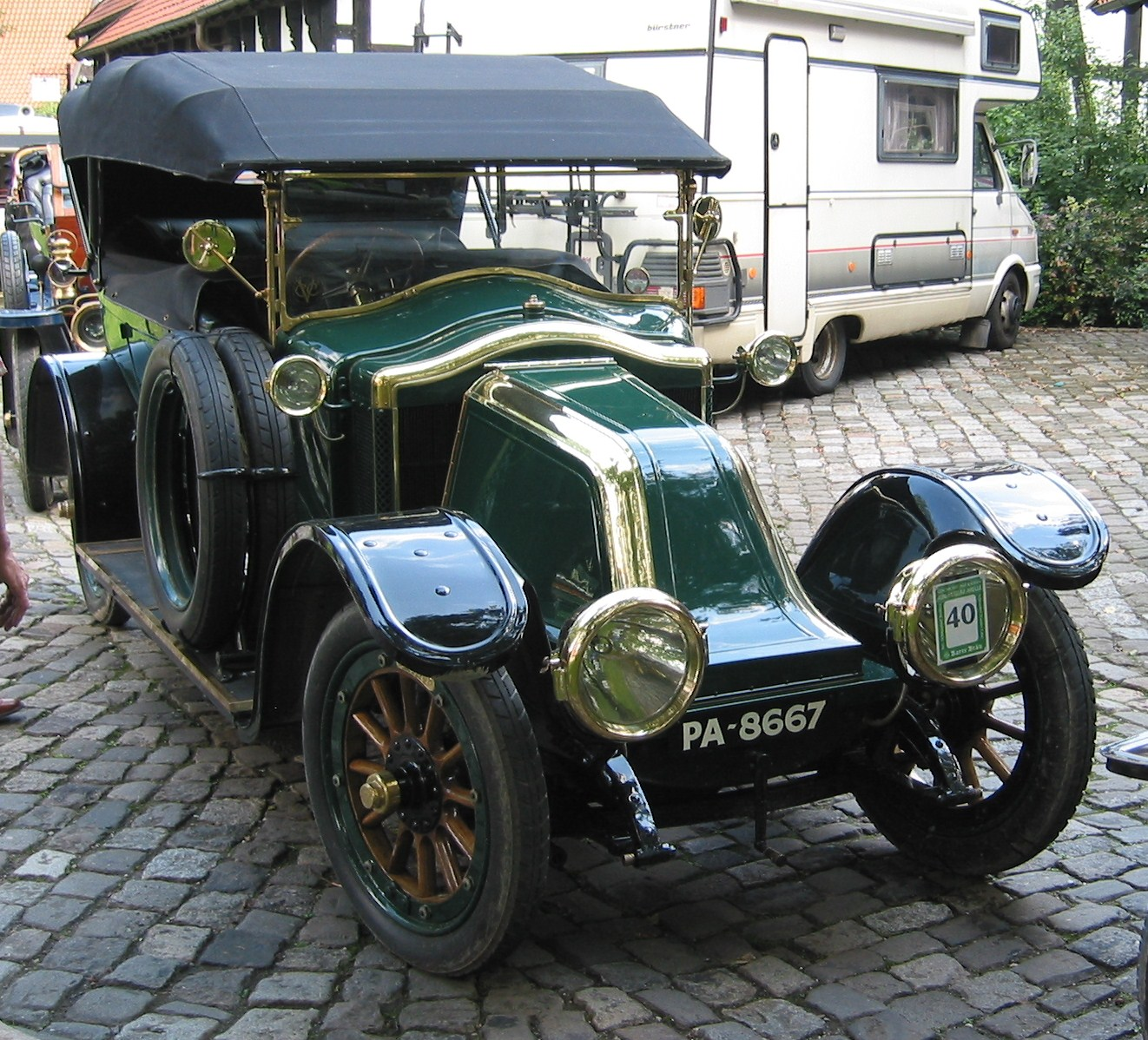 Renault Type CE Torpedo von Regent Carriage Company 1912